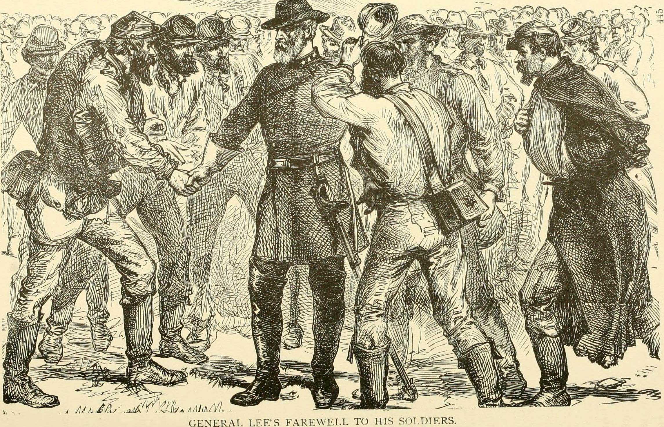 General Robert Edward Lee's farewell to his soldiers Title: Makers of the world's history and their grand achievements Year: 1903 (1900s) Authors: Northrop, Henry Davenport, 1836-1909 Subjects: World history. (from old catalog) Biography Publisher: Philadelphia, Pa., National publishing co Text Appearing Before Image: , crossed the fords above. Leaving about 9000 men in Fredericksburg, Lee marched, on MayI, to meet Hookers advance, which he encountered, attacked anddrove back to Chancellorsville. Dividing his force, he sent Jacksonwith one division of the army to strike Hooker in the rear.In the fighting that followed, Jackson received a mortal wound fromthe fire of his own men; but in the end the Northern army wasdriven with great Joss from the field. jMeantimc- Sedgwick had carriedthe position at Fredericksburg, and had in turn been driven across the Text Appearing After Image: 440 (iKNERAL ROBERT E. LEE. river by Lee. The.se contest.s raised the confidence of General Leesarmy to the highest pitch, and he again resolved to carry the scene ofactive operations to Northern soil. Tlie campaign of 1864 began with the advance of the Northern armyunder General Grant, who crossed the Rapidan on Ala)- 4 with 120,000men. Lees opposing force was about 60,000, and he attacked his adver-sary with his usual promptitude and courage. Lees plan of striking theilank of Grants army as it passed through the Wilderness has been pro-nounced above critcism, yet Grants persistent hammering and superiorforce told the inevitable tale. Its no use killing these fellows; half adozen take the place of every one we kill ; is said to have been acommon remark in Lees army at this time. Pages might be filled with the touching scenes of the great com-manders surrender. General, cried one of his men, take back theword surrender; it is unworthy of you and of us. I have a wife andchildren in Geo